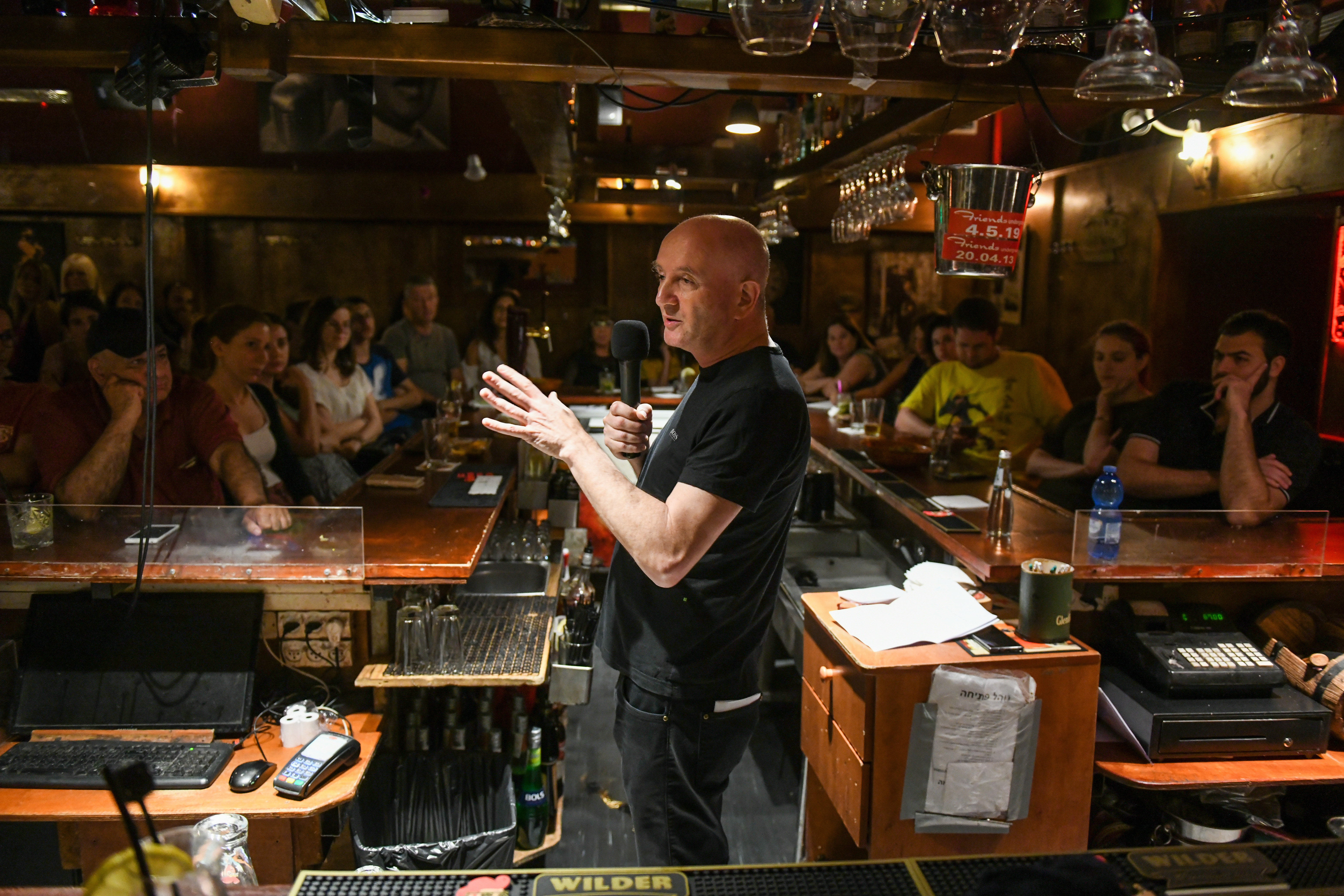 Science on Tap 2019_21